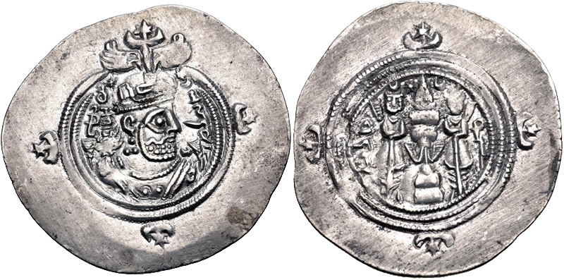 Coin of Farrukh Hormizd.